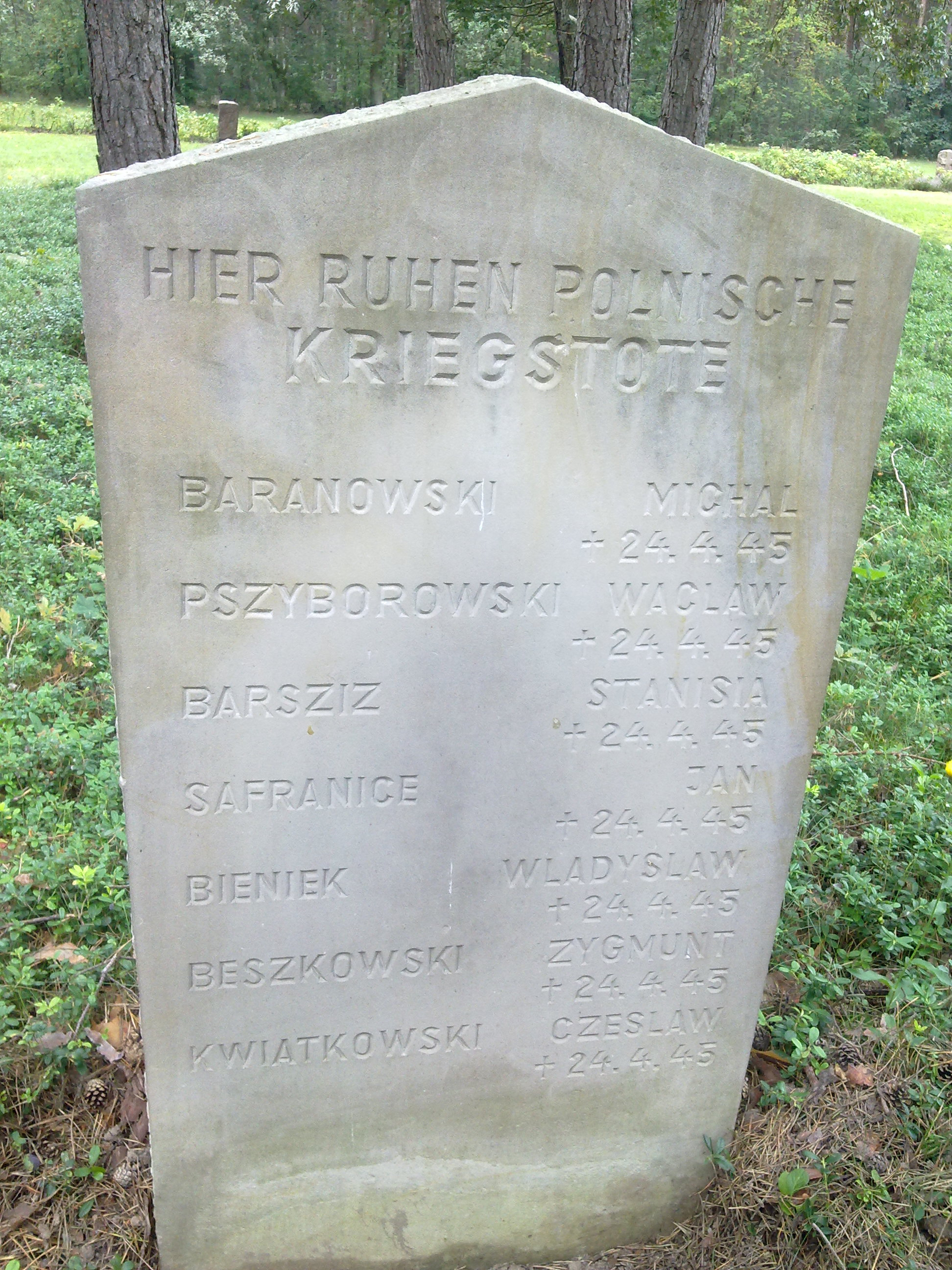 Polish POW burried at Wietzendorf